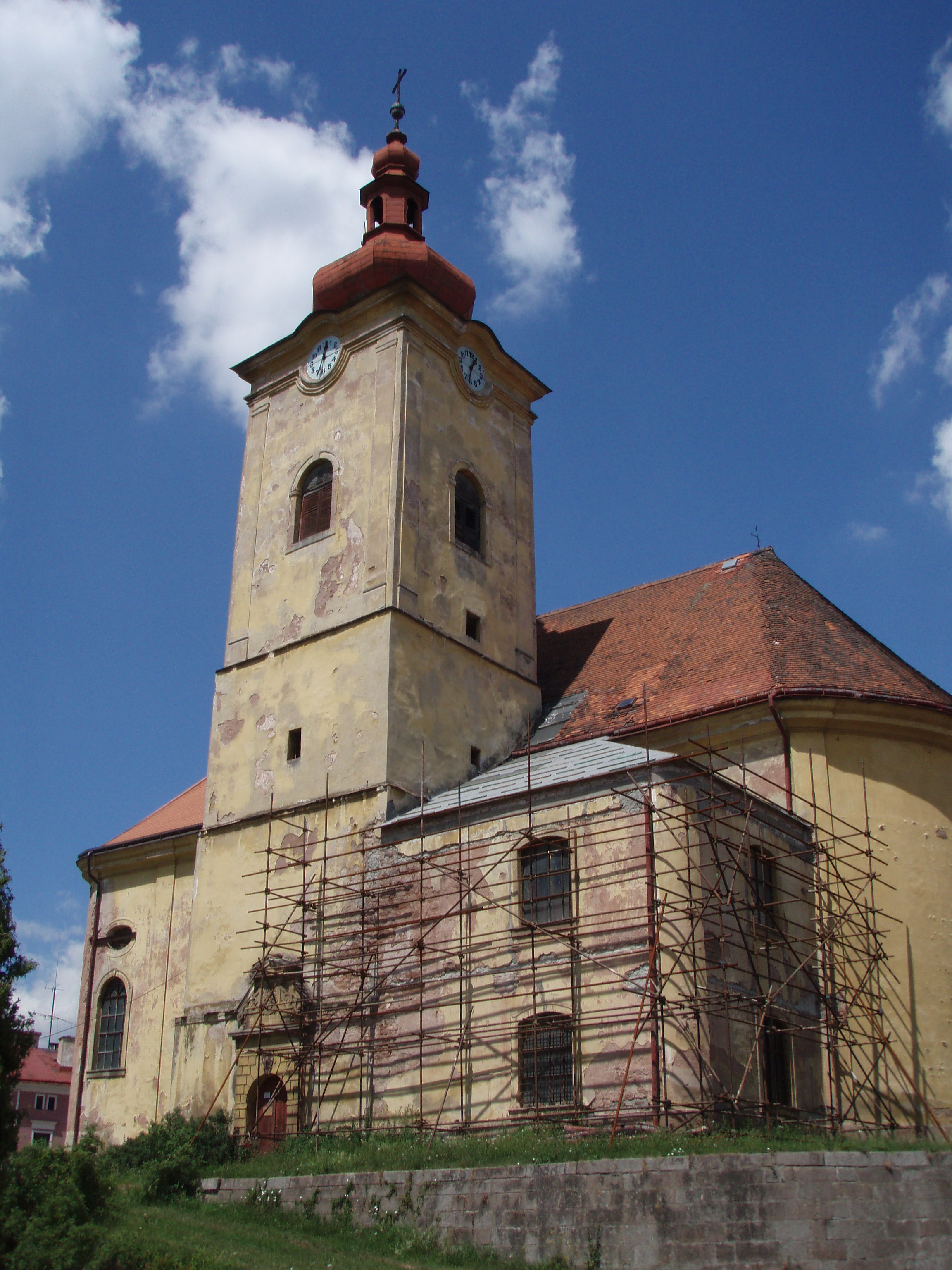 Church of the Holy Trinity in Pilníkov, Trutnov District, Hradec Králové Region, Czech Republic